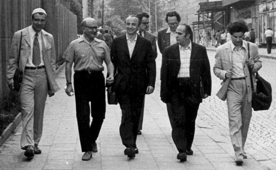 Edvard Chubaryan 75th Birthday, 05 May 2011 05, No. 44